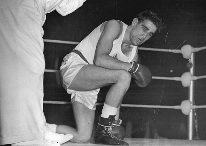 Original description from the federal archive P. James Central Photography Sports & General ... 10/15/1955 International boxing match England-USSR, 4:16 The Soviet boxing team achieved an impressive victory on Wedensday in London in an international match against England. The hosts had to recognize they had been soundly beaten in the overall results. UBz: The only K.O. of the evening was won by the European heavy-weight champion A. Schozinkas (left). Englishman P. James was forced to concede after three knock-downs in the first round. Mistake in description: it states that there are two boxers to see: but there is only one .